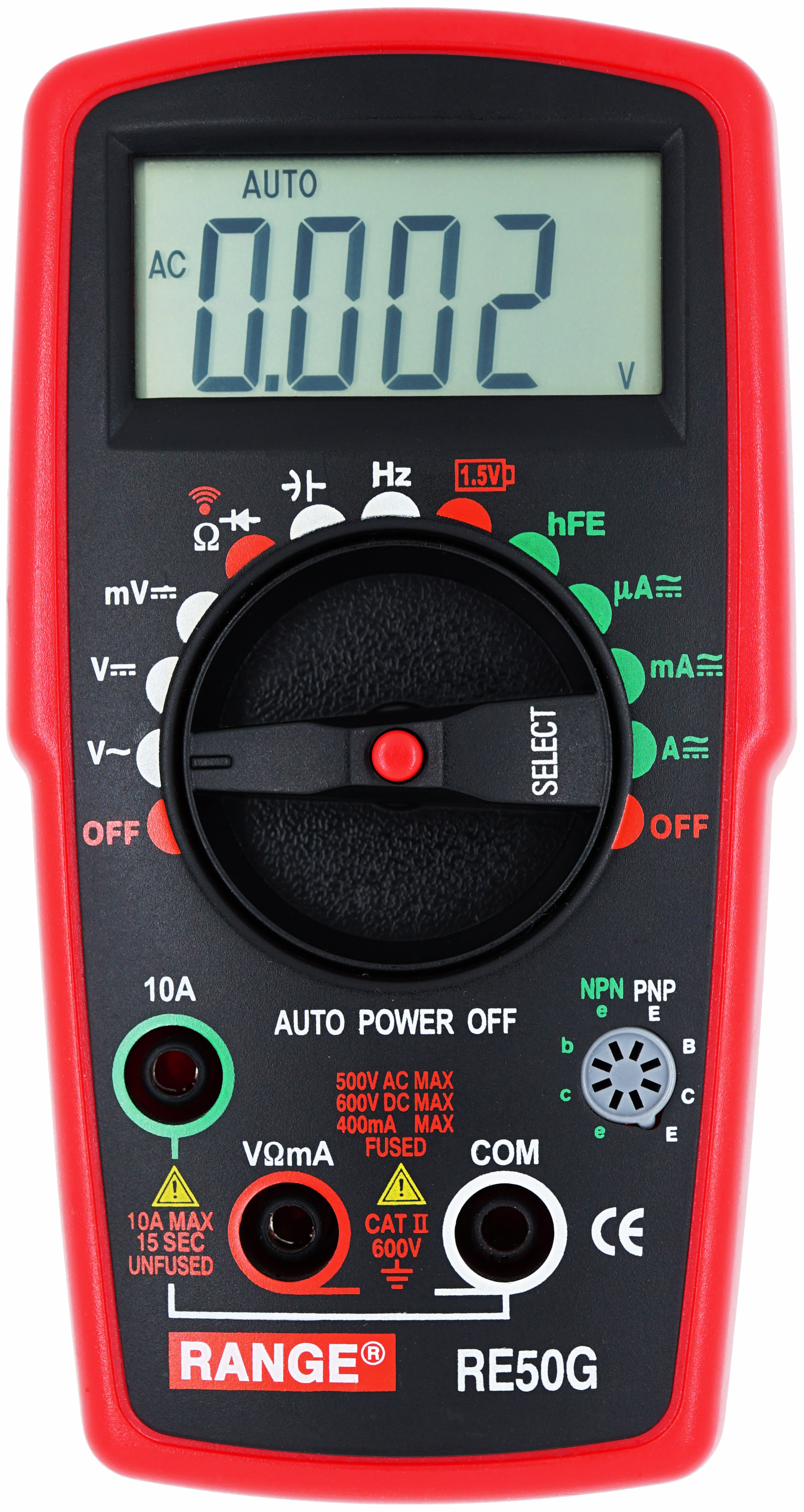 RE50G Range Digital Mutilmeter, professional Mutilmeter